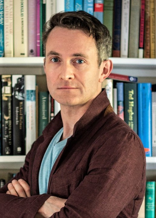 British author Douglas Murray in 2019. Photo by Andy Ngo.